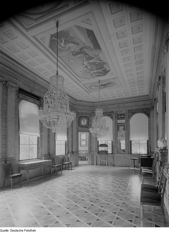 Original image description from the Deutsche FotothekBerlin